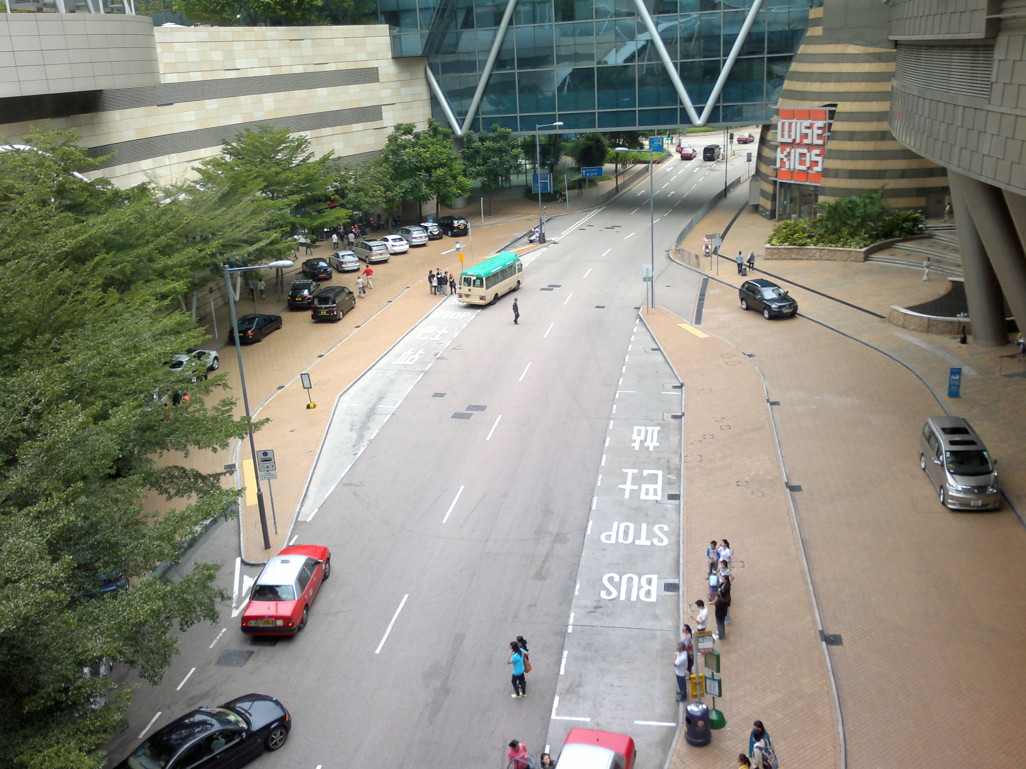 Cyberport Road near Cyberport Arcade